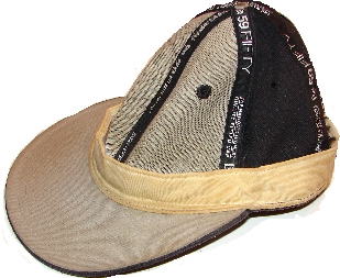 Picture taken by Alex Carson (me). Inside out baseball cap, known as a Rally Cap.